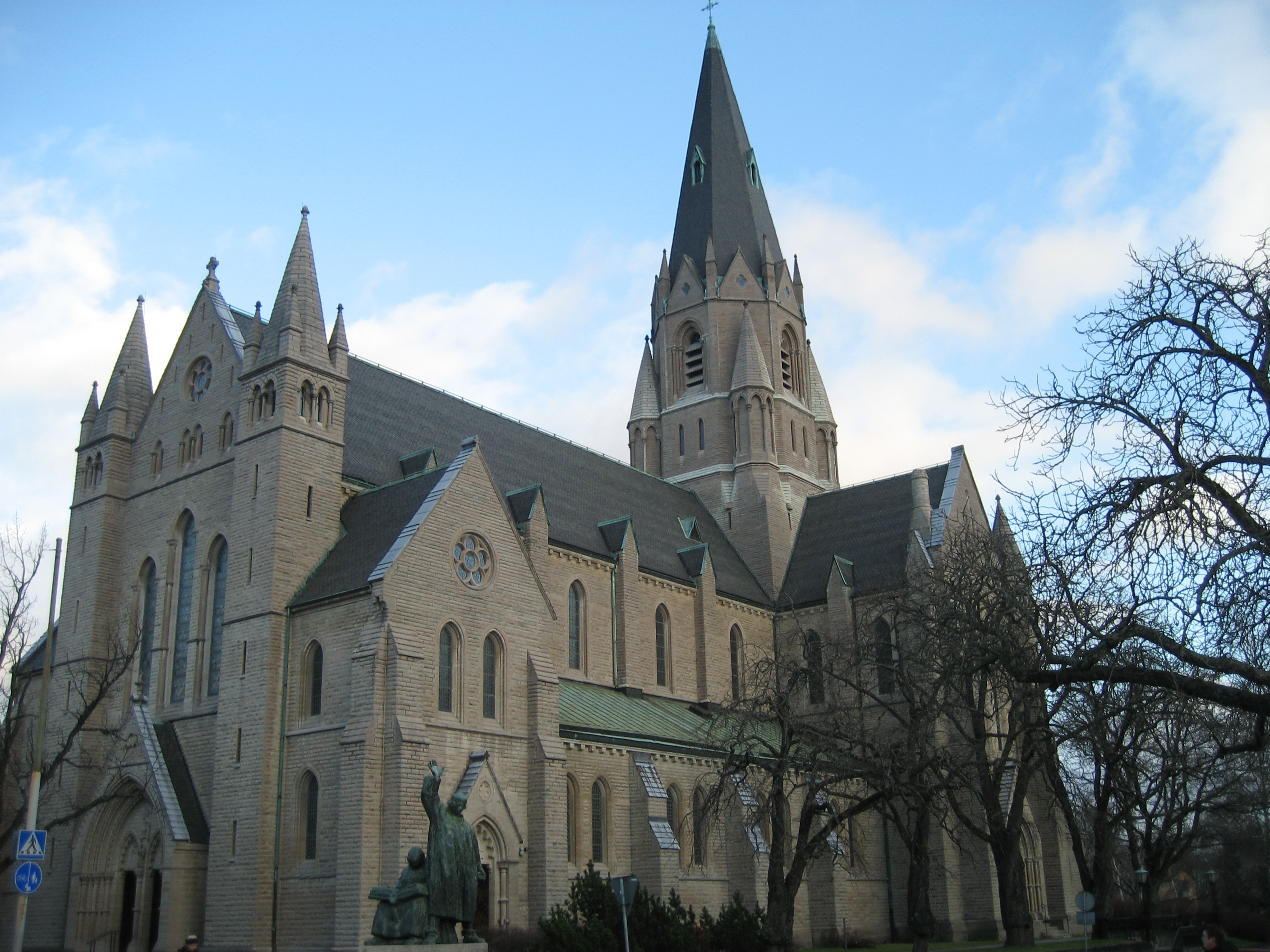 Olaus Petri Church in Örebro, Sweden. Southern facade.